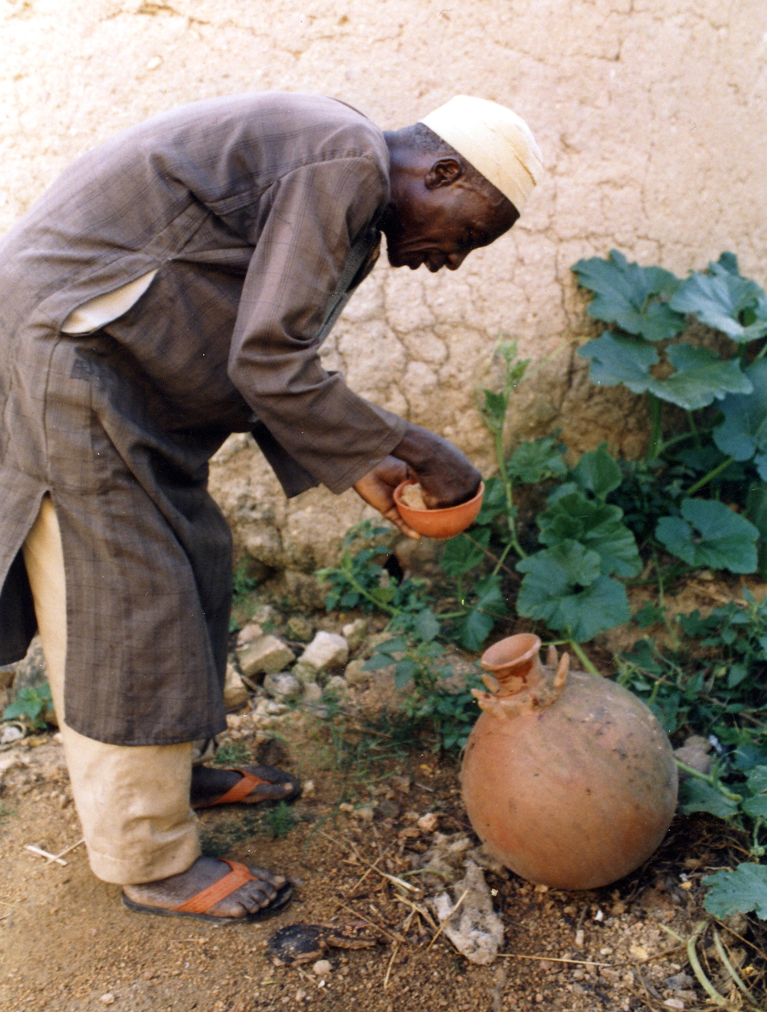 A home sacrifice in Kapsiki. Colour version of black-and-white photograph Figure 4.4, p. 61 in Walter E.A. van Beek: The dancing dead. Ritual and religion among the Kapsiki/Higi of North Cameroon and Northeastern Nigeria, Oxford University Press 2012